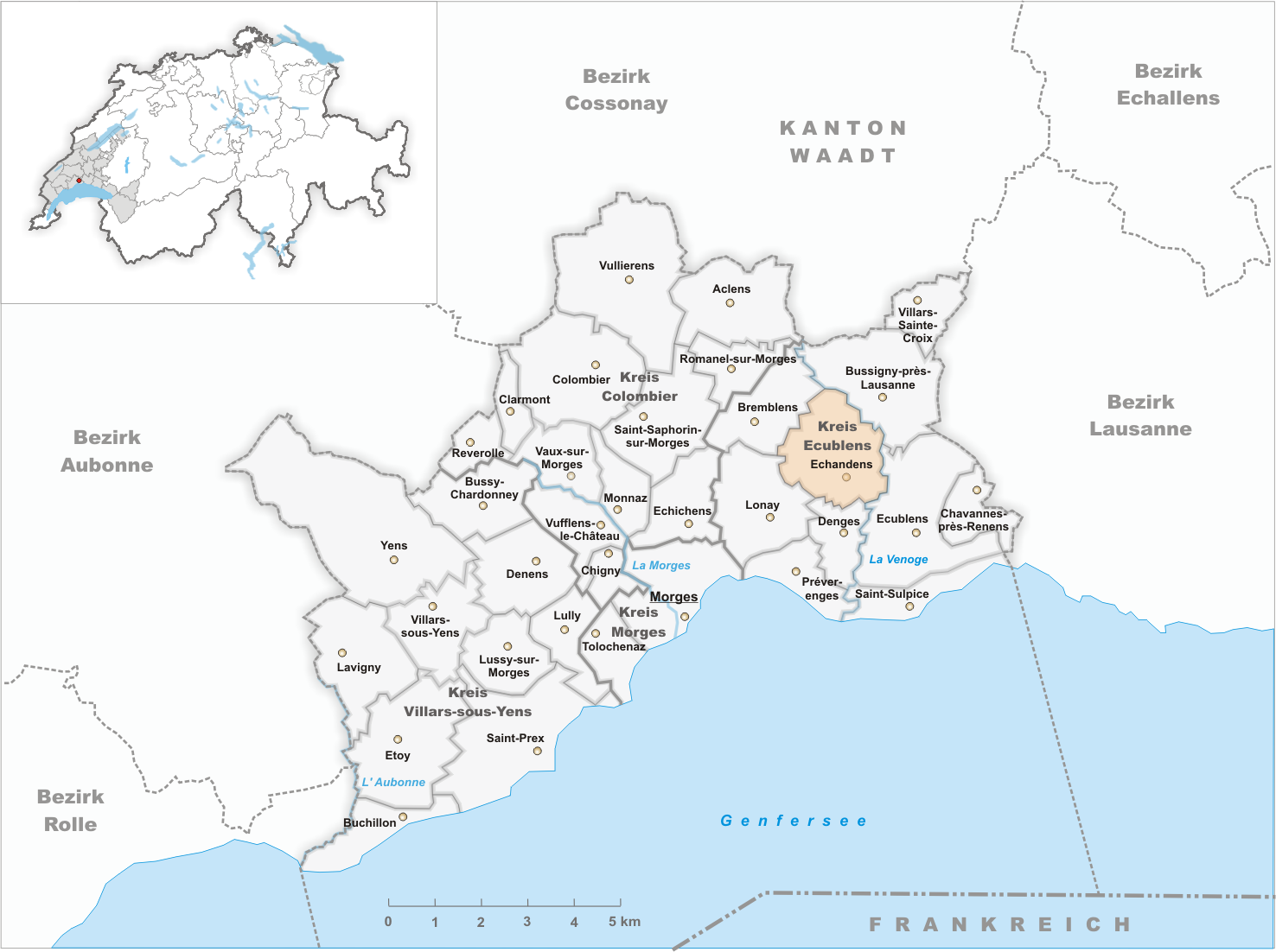 Municipality Echandens